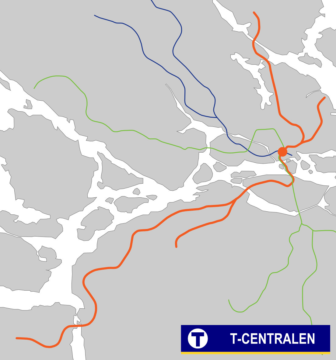 T-Centralen on Red Line, Stockholm Metro